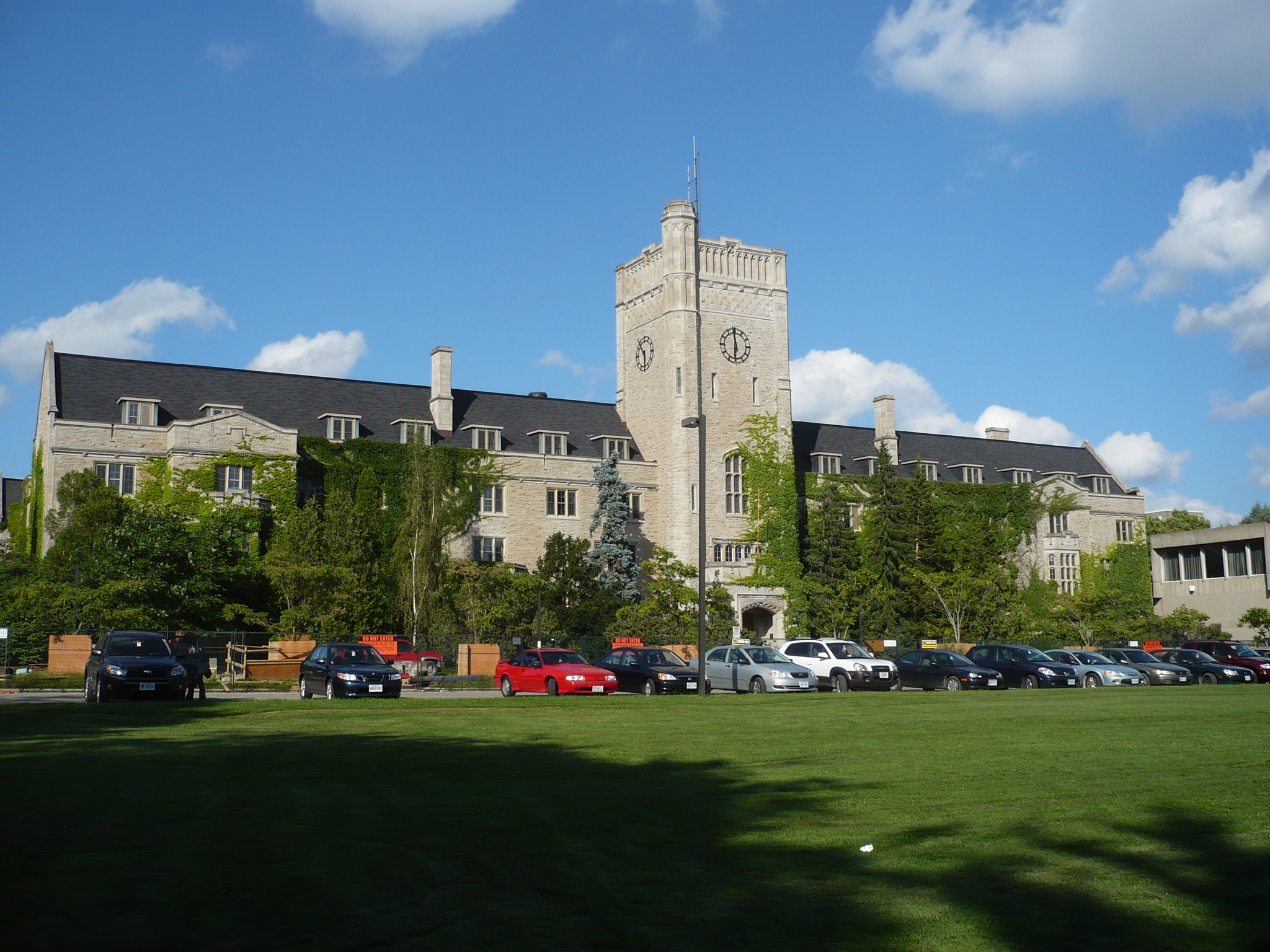 Johnston Hall